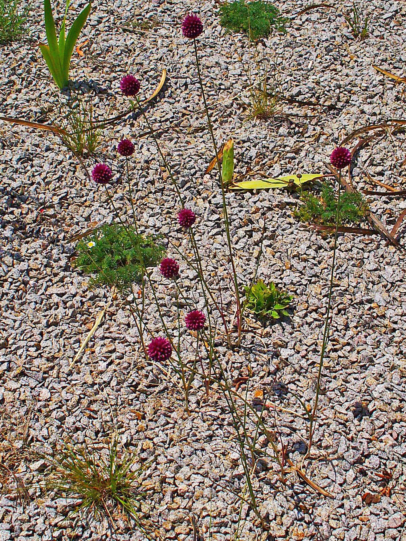 Allium sphaerocephalon, Alliaceae, Round-headed Leek, Round-headed Garlic, Ball-head Onion, habitus; Karlsruhe, Germany.